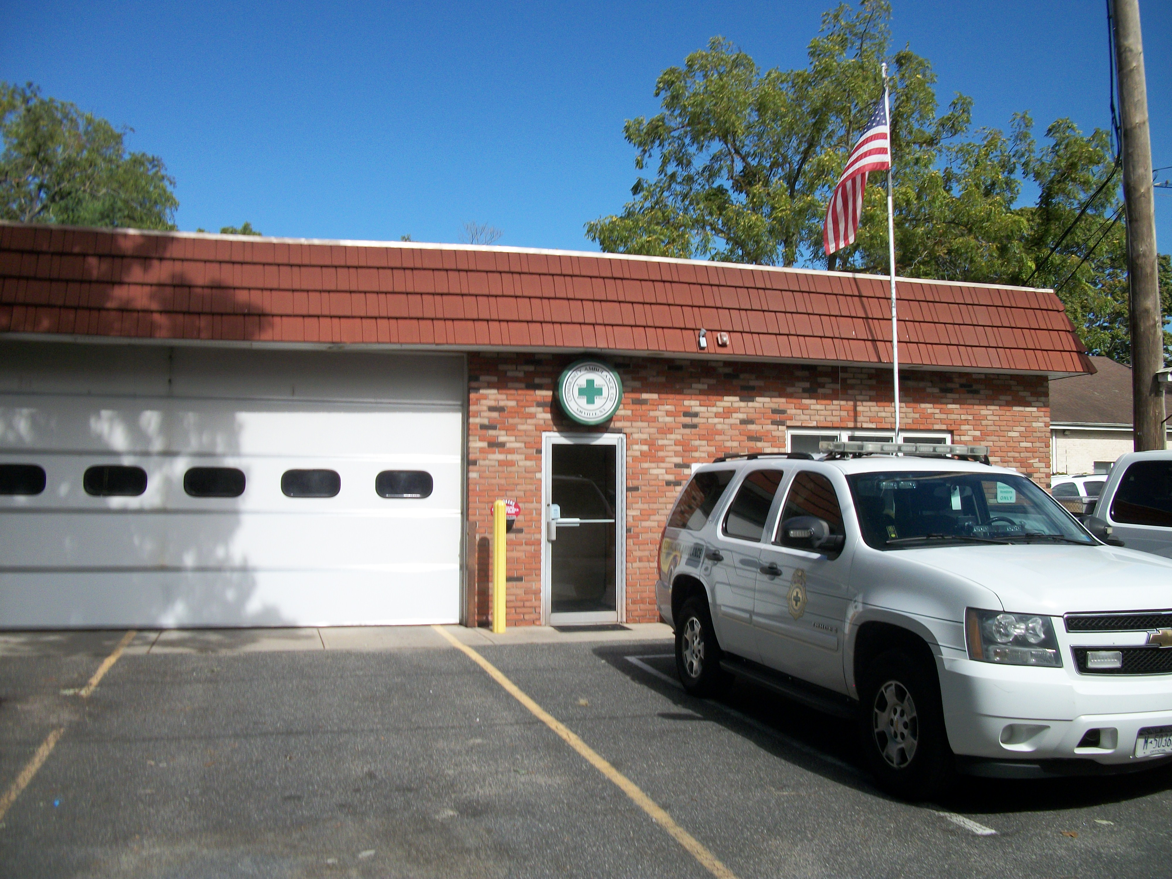 Shot of the Community Ambulance Company garage on Swayze Street in Sayville, New York.